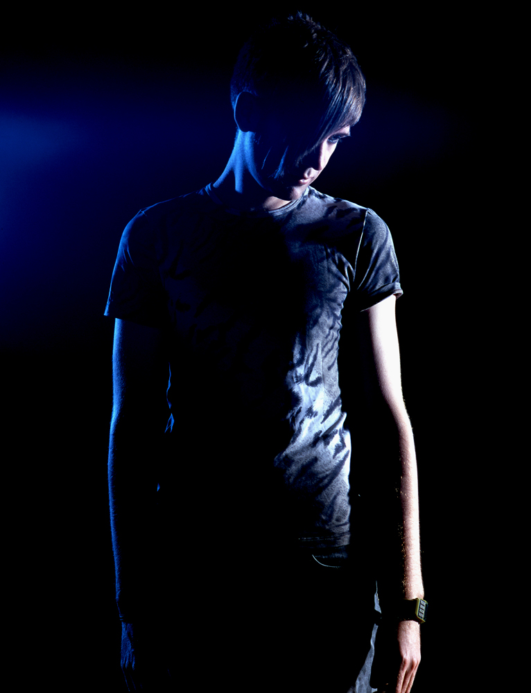 Stuart Stemple (